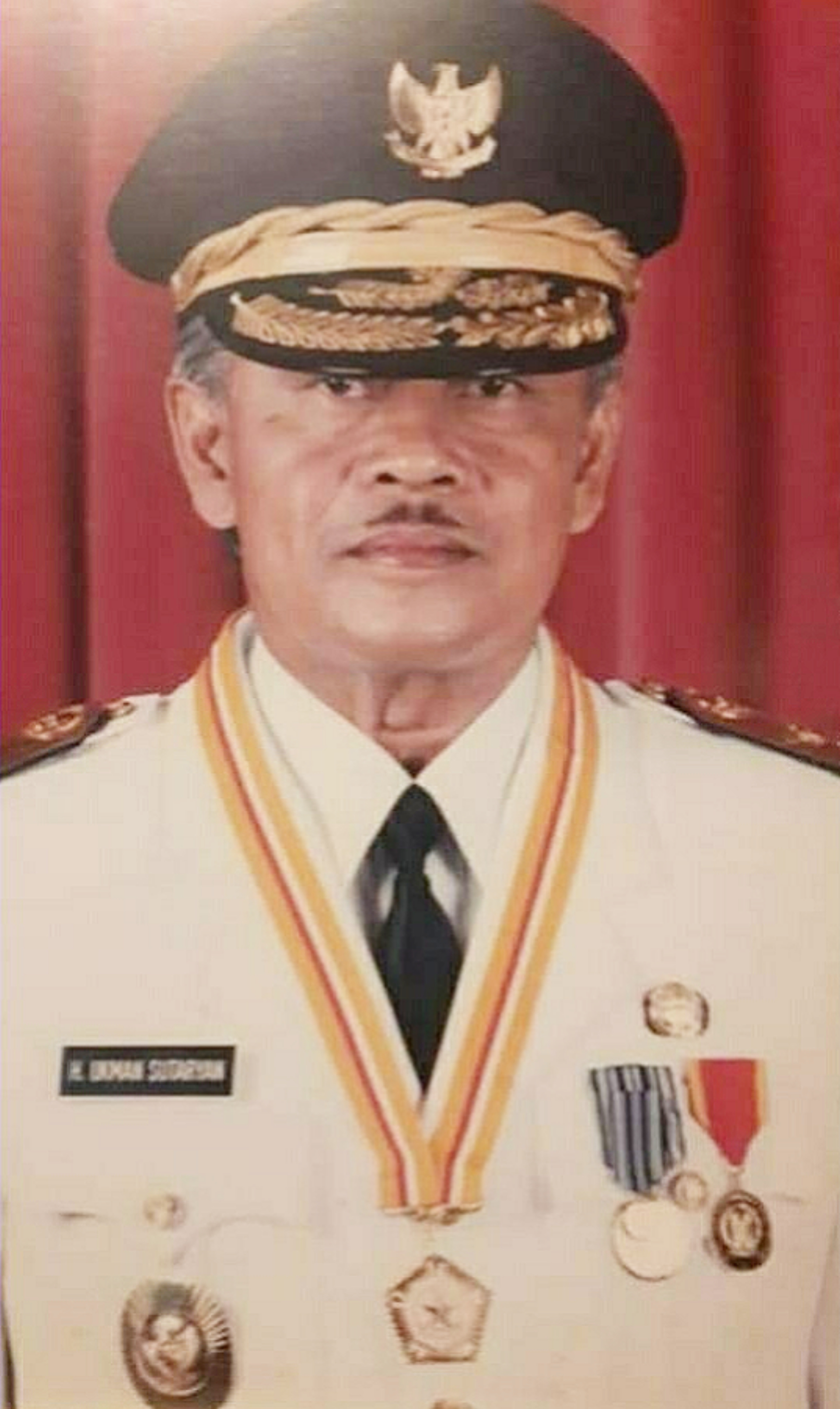 Portrait of Ukman Sutaryan as Deputy Governor of West Java in the field of Government and People's Welfare